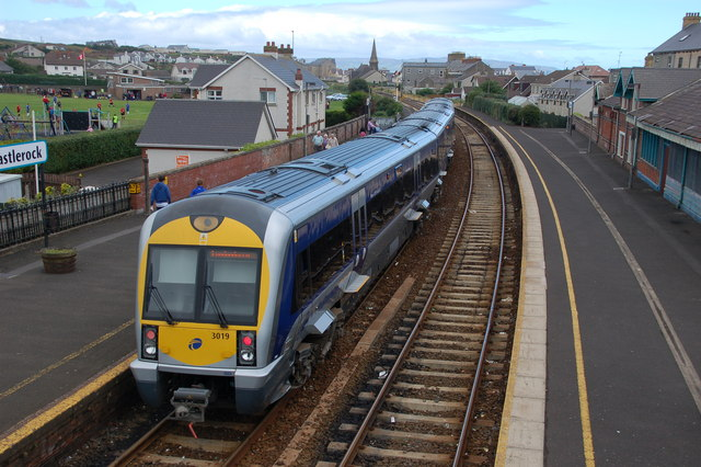 Castlerock station, Northern Ireland Railways. Castlerock station was opened in 1853. What remains is a good example of Belfast and Northern Counties Railway architecture. The train is the 10.35 Belfast Gt. Victoria St – Londonderry running some 21 minutes late. Shortly after leaving the station it will enter Castlerock tunnel (667 yards long). The tunnel is in another square.